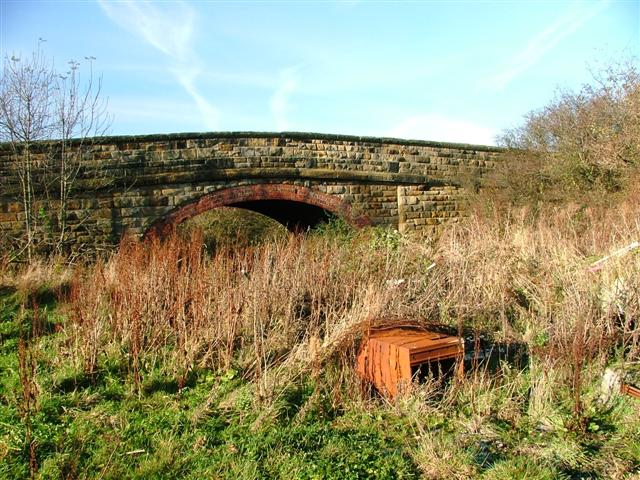 Peter Hill Bridge, Trenholme Lane. Bridge over the dismantled railway from Picton to Battersby, now used here as a farm rubbish dump.